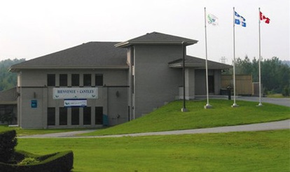 Cantley's city hall